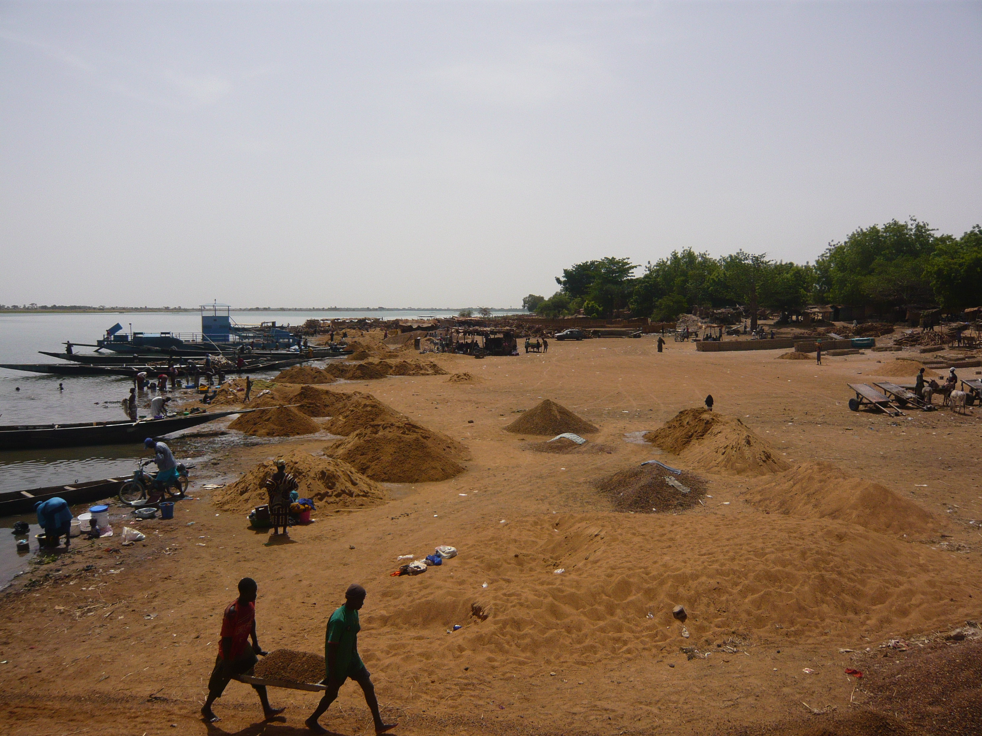 Workers in Segou